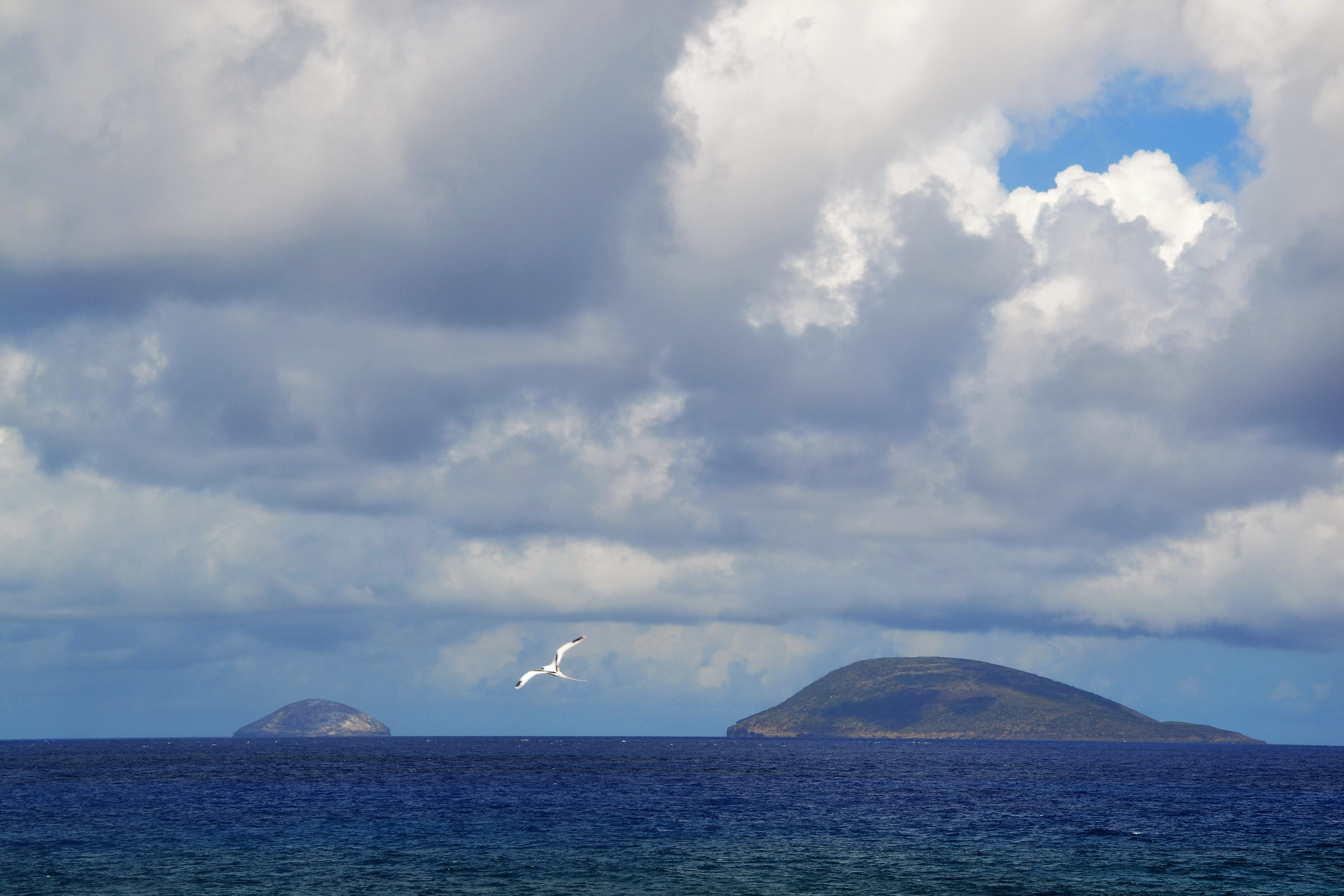 Round Island and Serpent Island, the two northernmost of the northern islets of Mauritius, Indian Ocean, seen from WSW